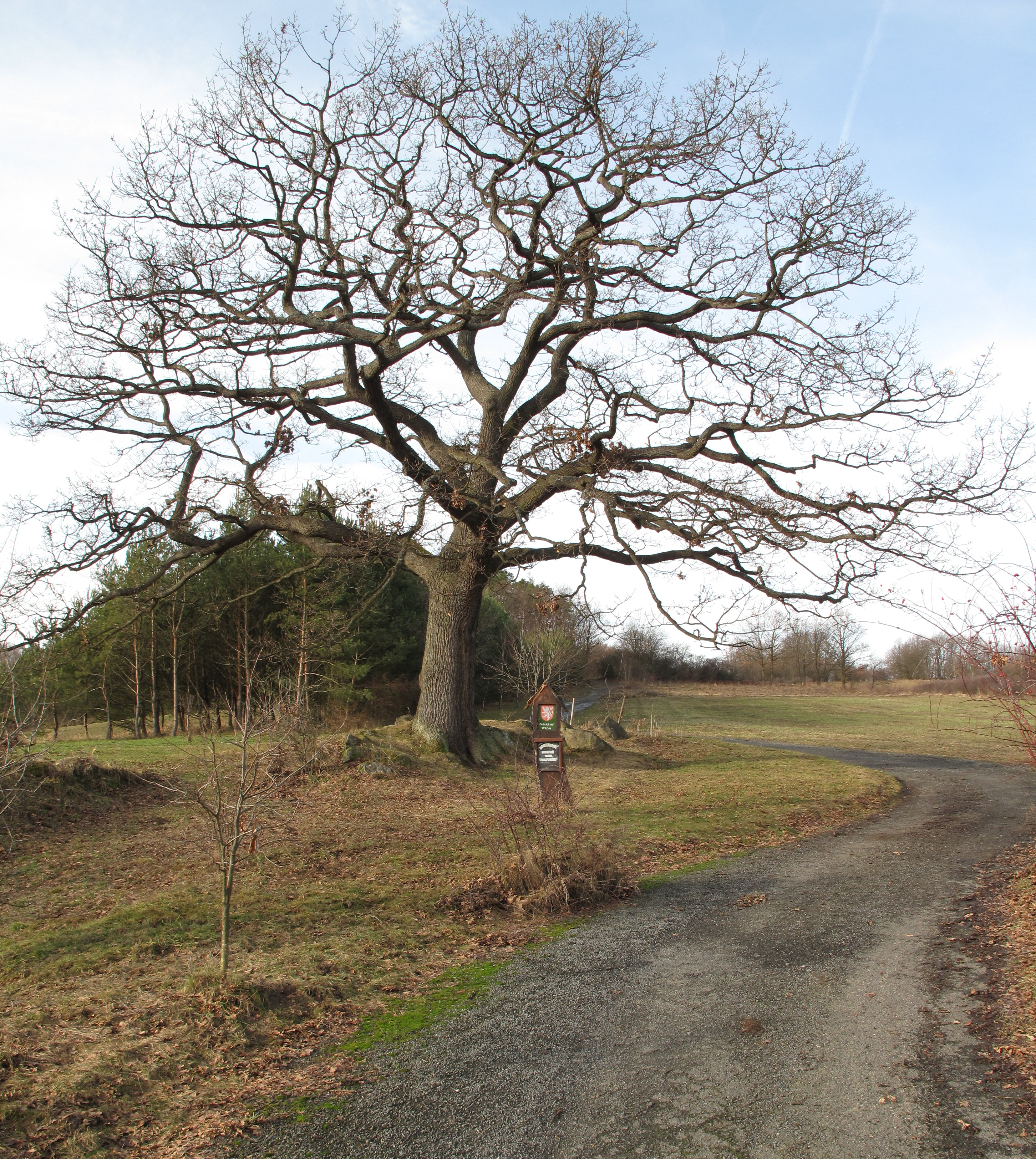 Memorable oak as sen from east, Prague-West District, Czech Republic.